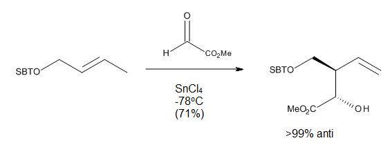 ene reaction